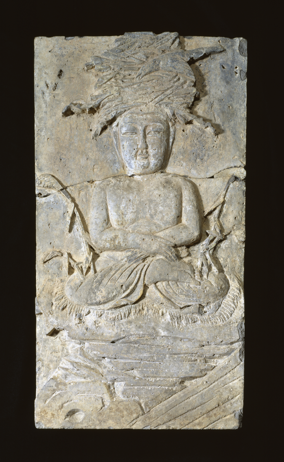 These panels must have originally adorned a Buddhist structure, perhaps a pagoda somewhere in northernmost China. The Walters owns fifteen panels; there are likely to have been many more at the original site, but no others have yet been identified, nor has the structure they covered been located. The reliefs may have been made in territories ruled by the non-Chinese Liao dynasty.